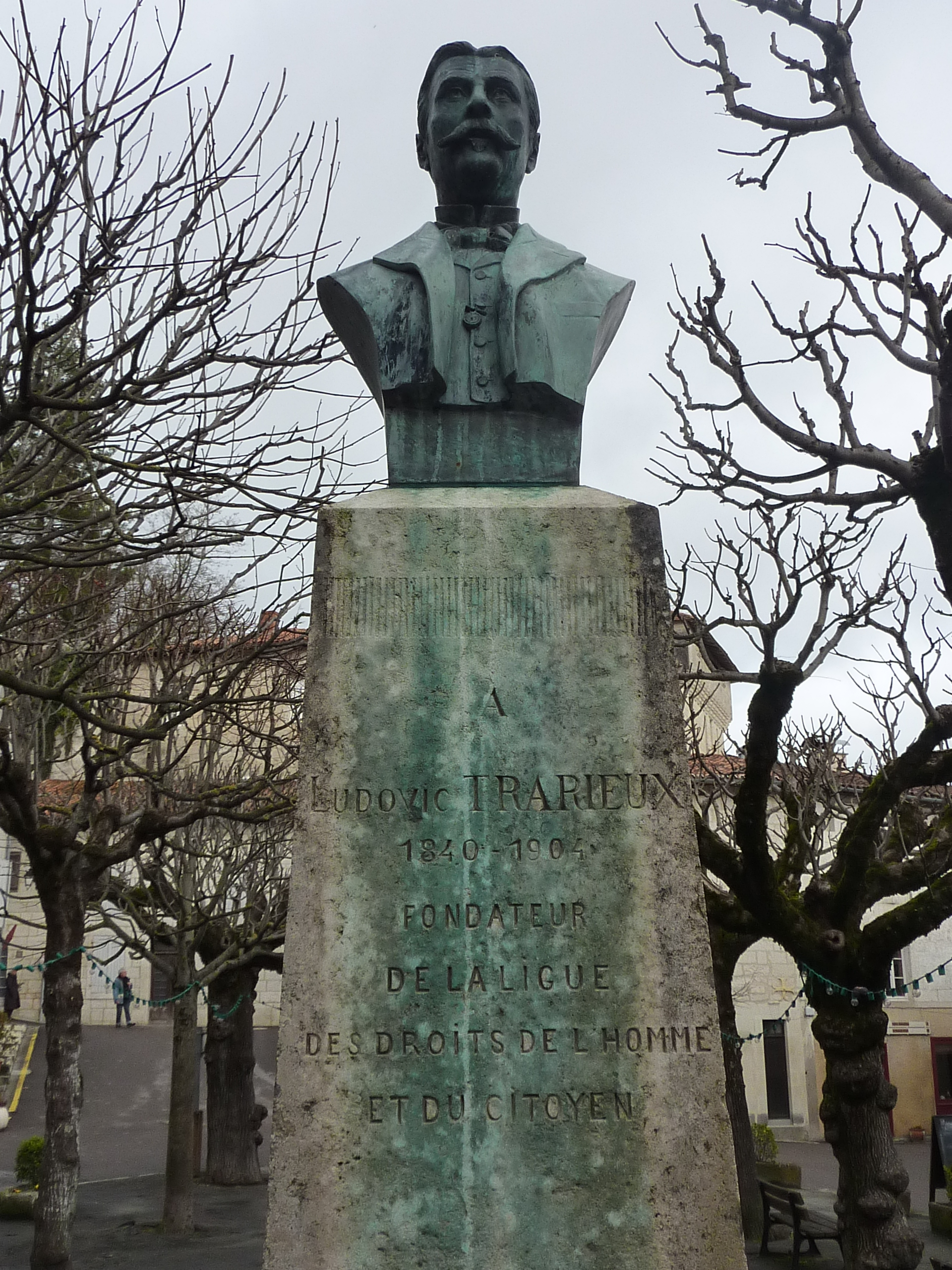 Statue of Ludovic Trarieux in Aubeterre-sur-Dronne, Charente, France